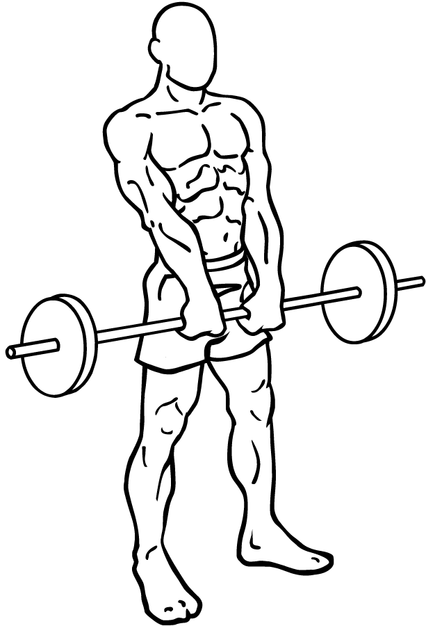 an exercise of traps